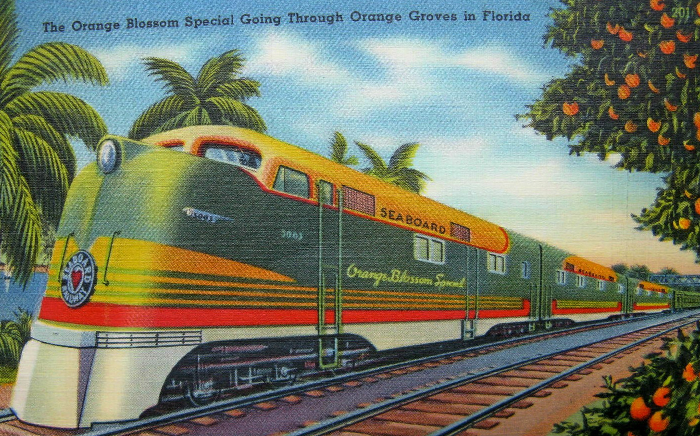 Postcard depiction of the Seaboard Air Line Railroad train The Orange Blossom Special which traveled between New York and Miami. The card touts the train as being the only "all electric" train from New York to Florida (1939 postmark). The term refers to the diesel engines which were used for the train beginning in 1938.